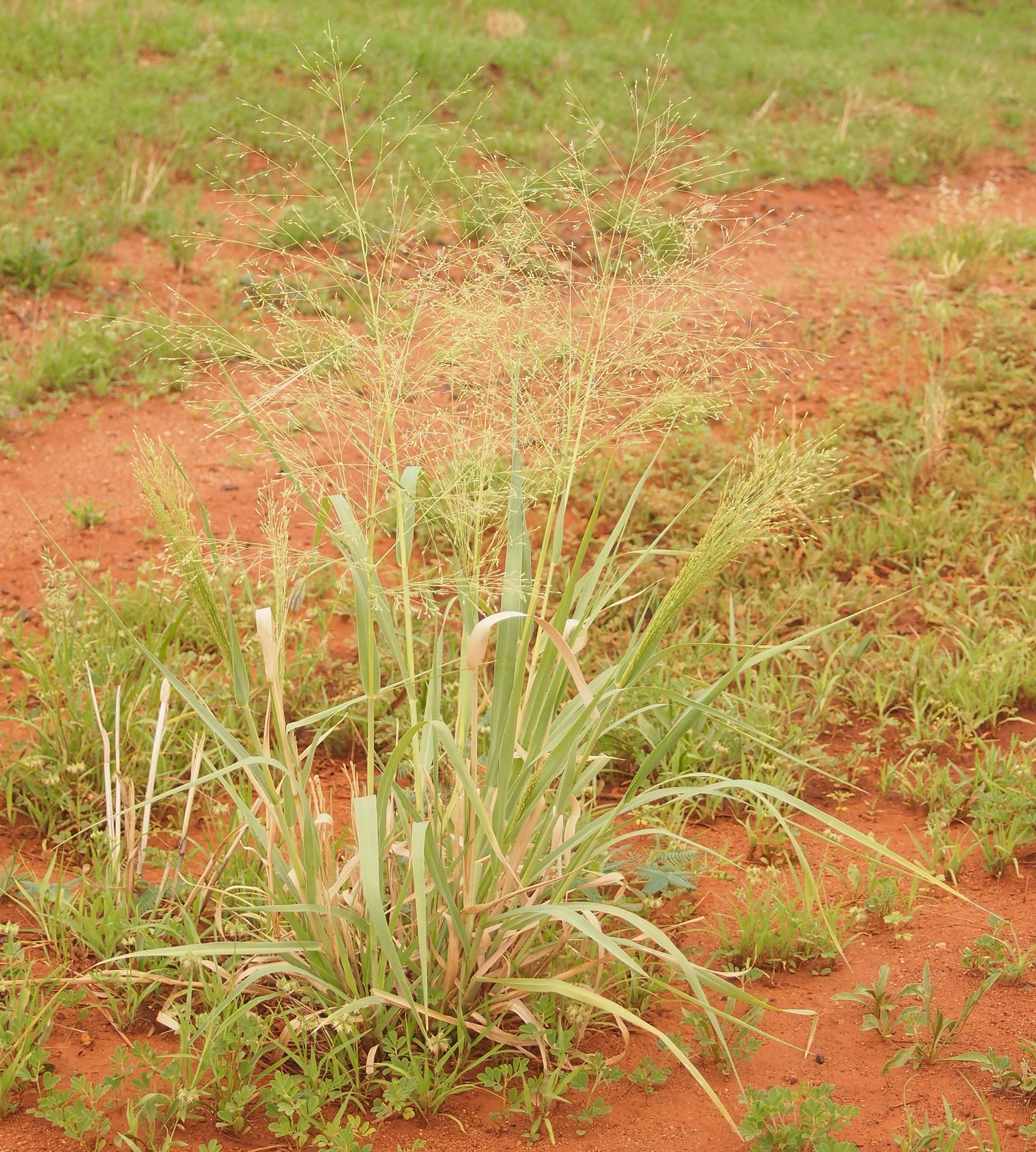 Panicum decompositum habitus